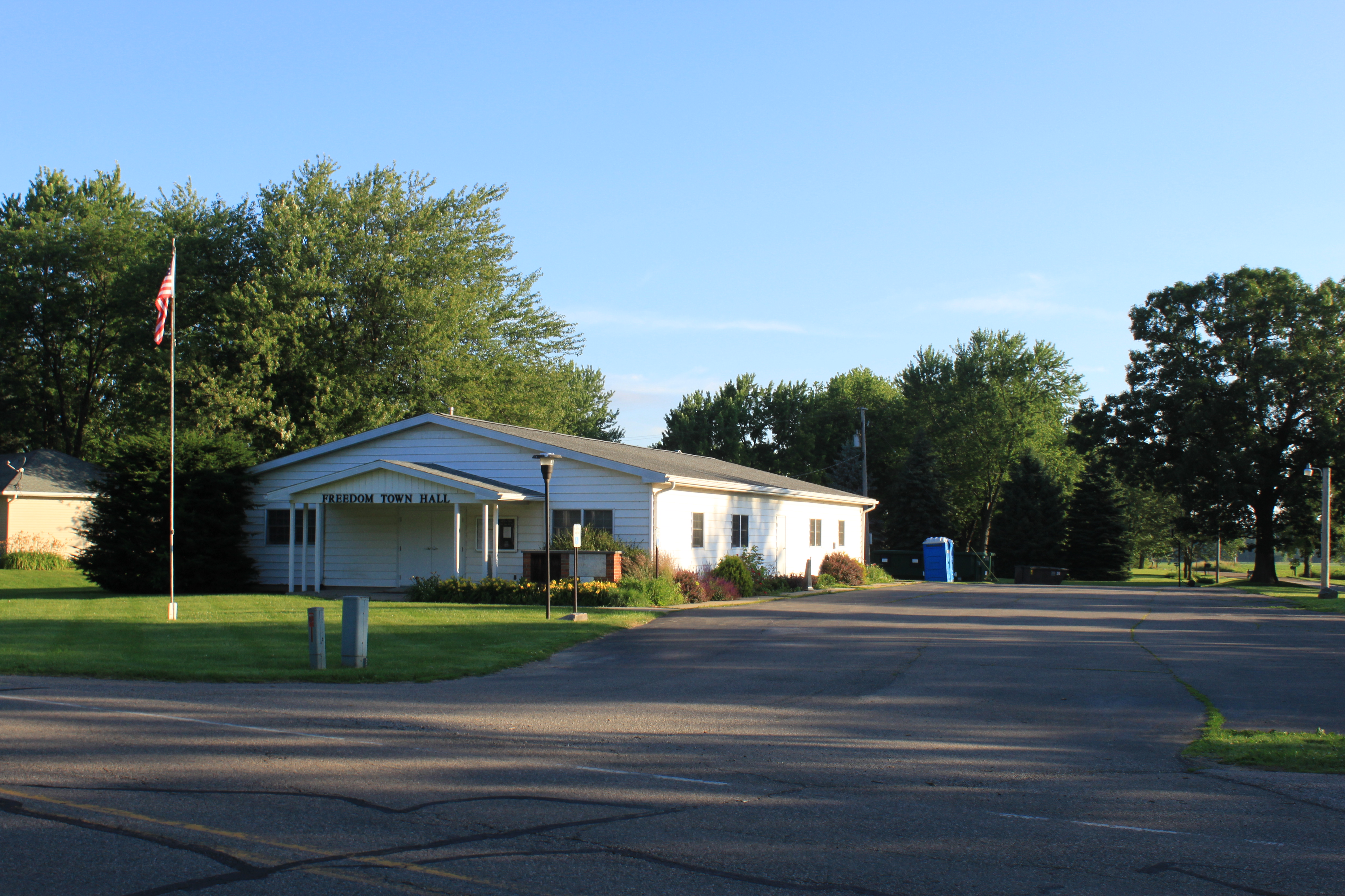 Freedom Township Michigan Town Hall, E. 11508 Pleasant Lake Road